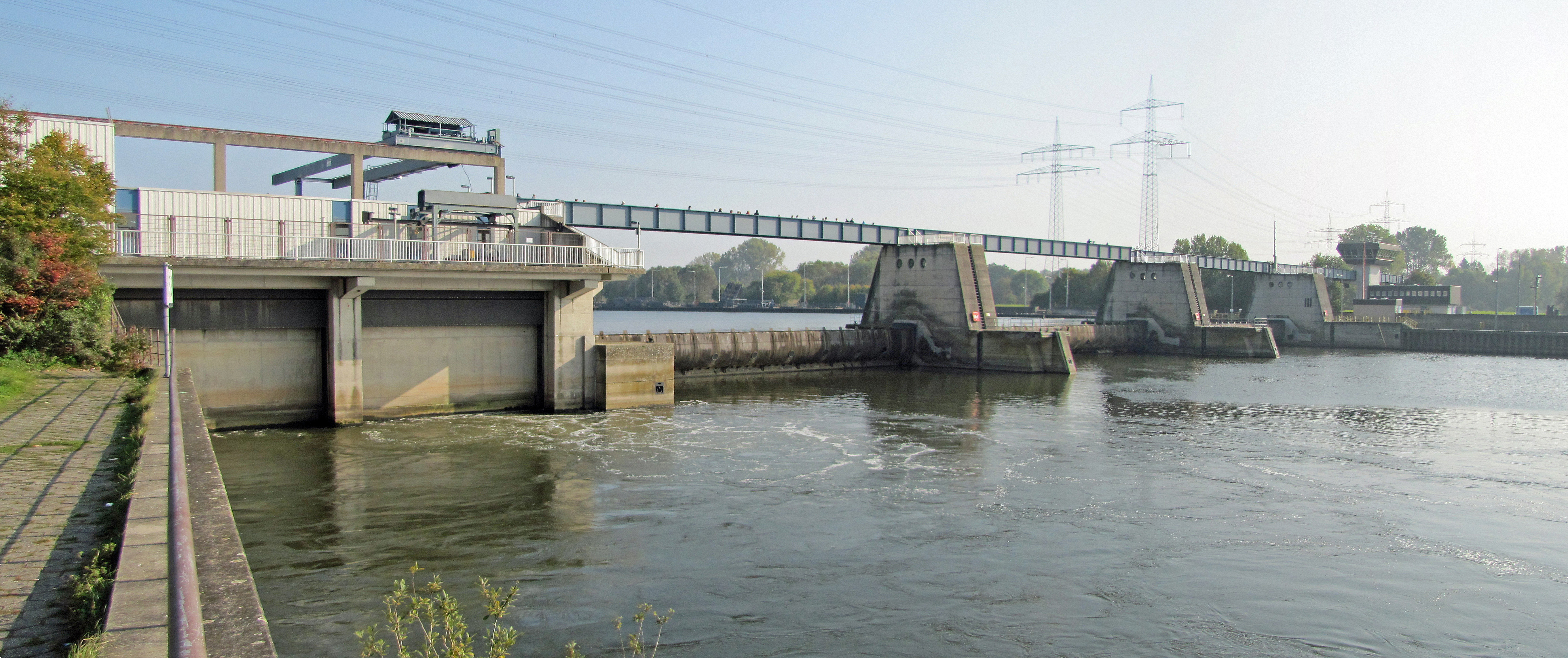 Weir and lock on "Main" river, at Muehlheim am Main, Hesse, Germany.